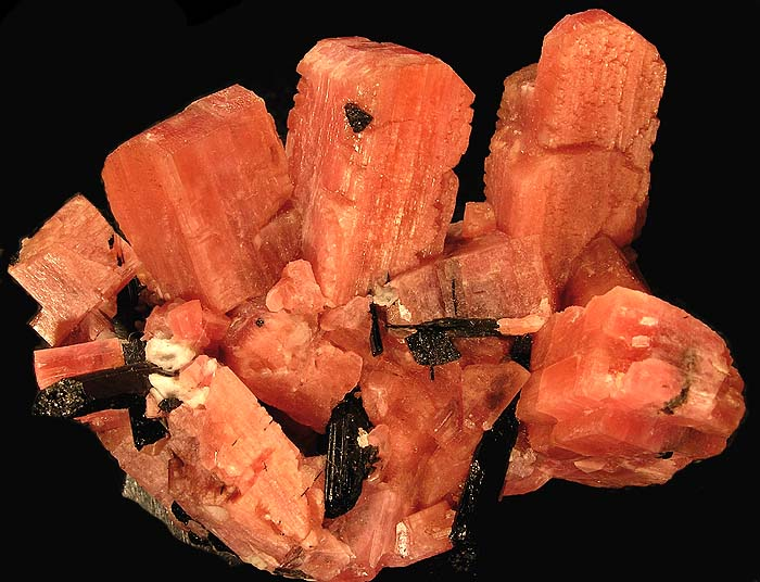 Sérandite, Aegirine Locality: Poudrette quarry (Demix quarry; Uni-Mix quarry; Desourdy quarry), Mont Saint-Hilaire, Rouville RCM, Montérégie, Québec, Canada (Locality at ) This fine specimen is one of the more sculptural and dramatic serandite clusters. Note that the crystals are translucent when backlit well. 6.2 x 5.5 x 3.9 cm. This Photo was Photo of the Day - 11th Dec 2009